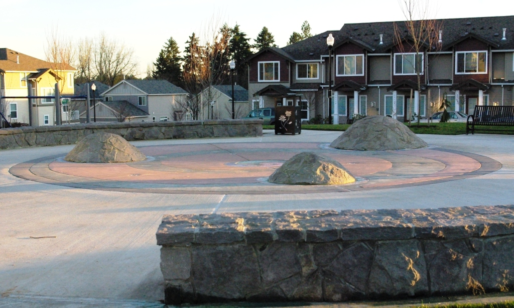 Fountain at Magnolia Park (Hillsboro, Oregon) in Hillsboro, Oregon, USA